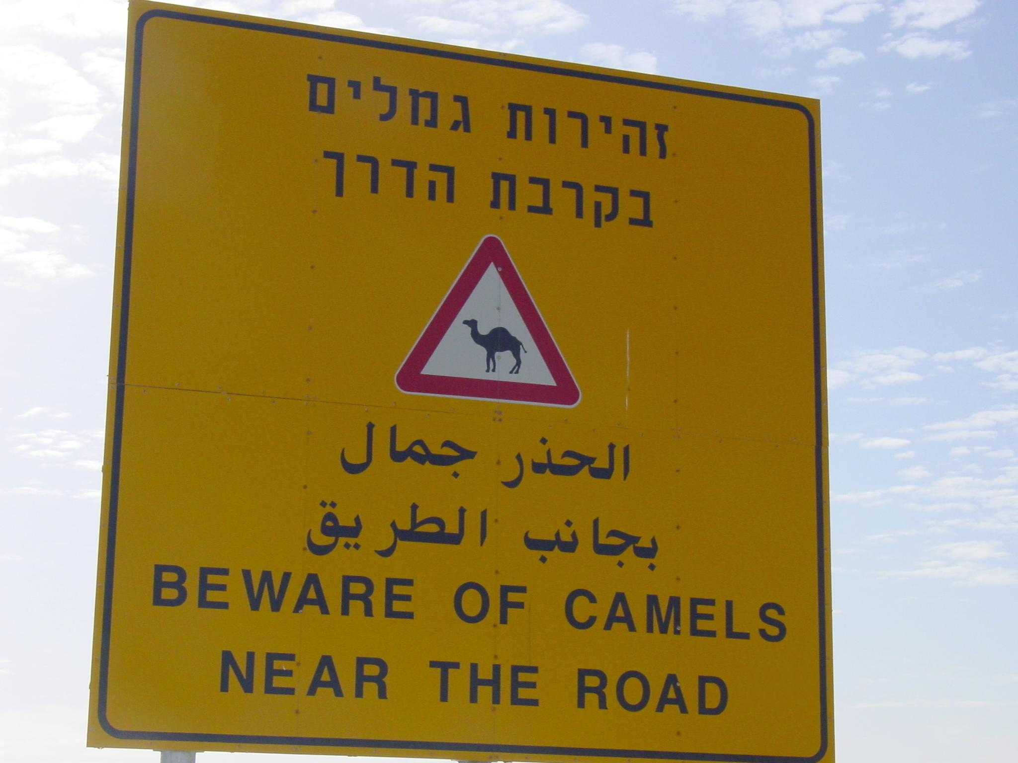 A multilingual warning sign in the Negev: "Beware of camels near the road"